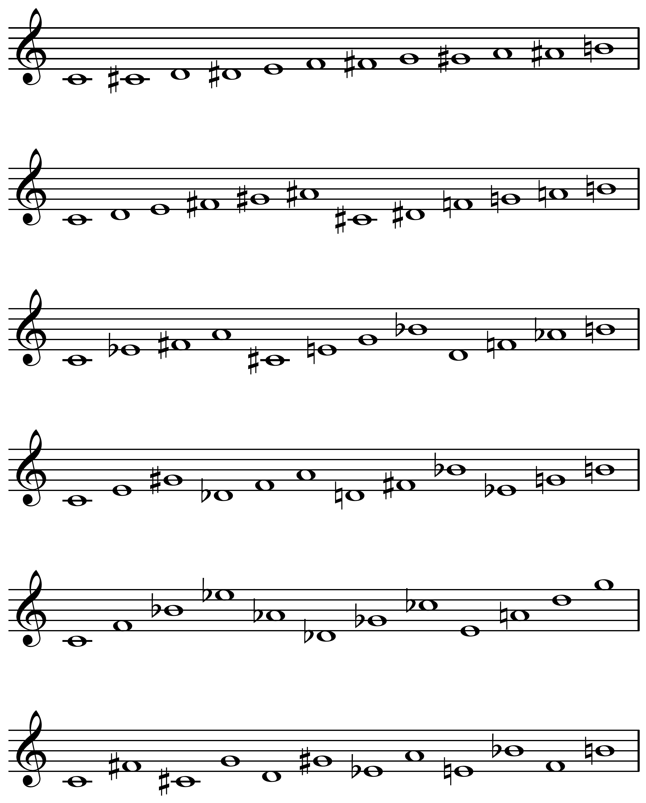 Twelve-tone interval cycles complete the aggregate: C1 once (top) or C6 six times (bottom). Created by Hyacinth (talk) 23:27, 22 May 2009 using Sibelius 5.